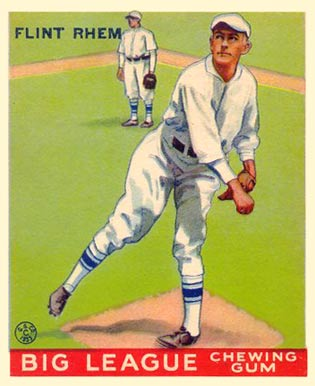 1933 Goudey baseball card of Flint Rhem of the Philadelphia Phillies #136. PD-not-renewed.